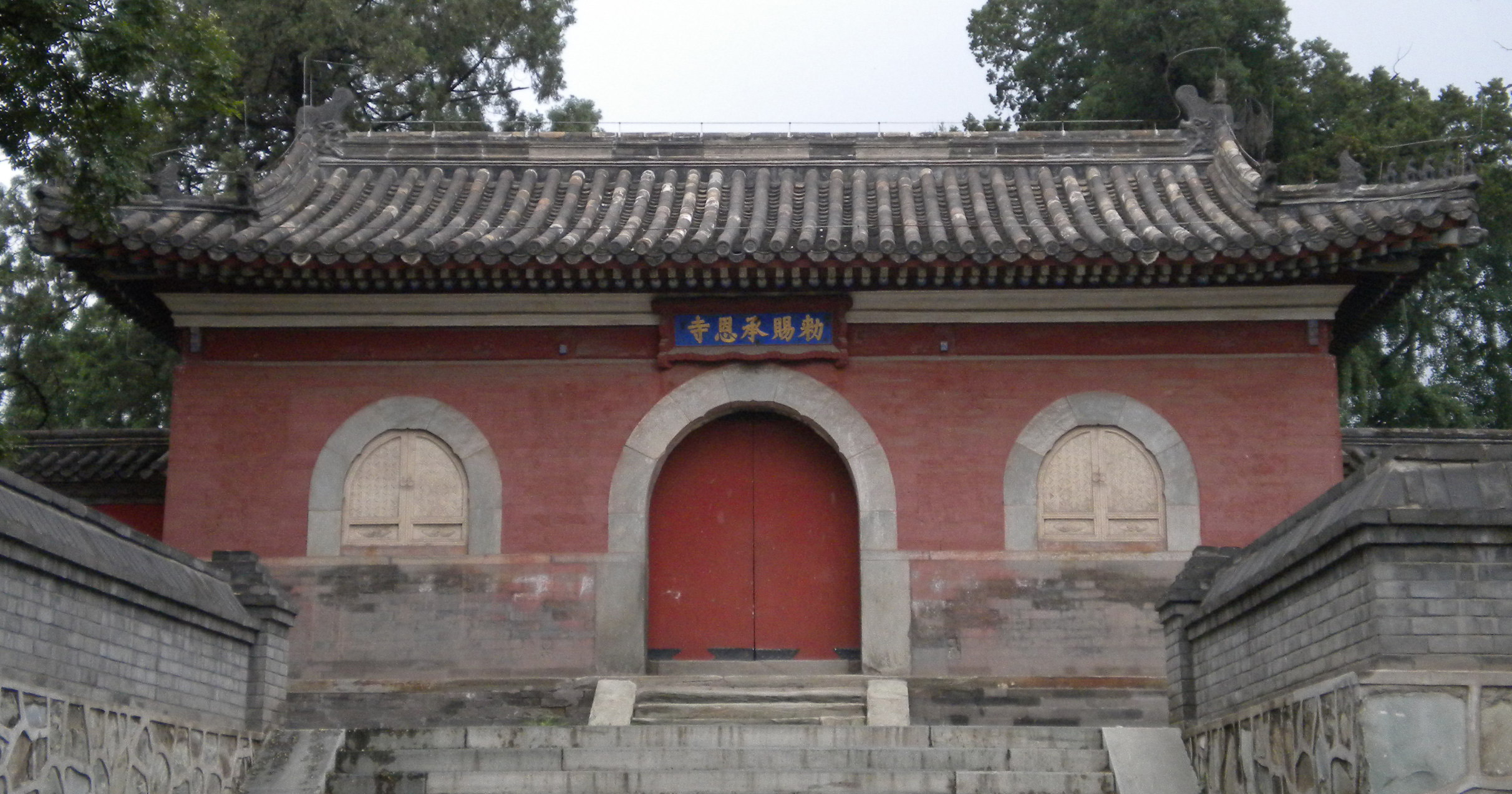 Cheng'en Temple, Shijingshan District, Beijing